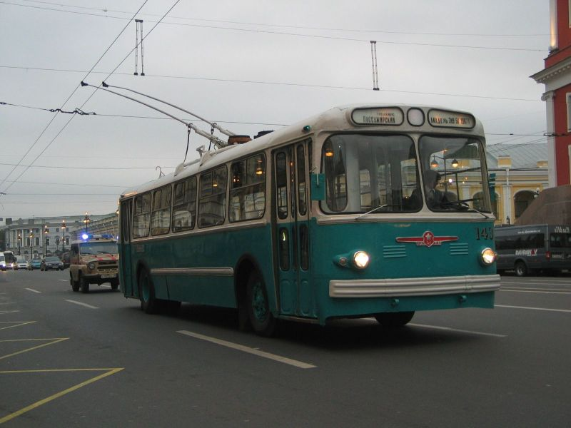 Museum trolleybus ZiU-5 druring the parade of vintage automobiles, Saint-Petersburg.